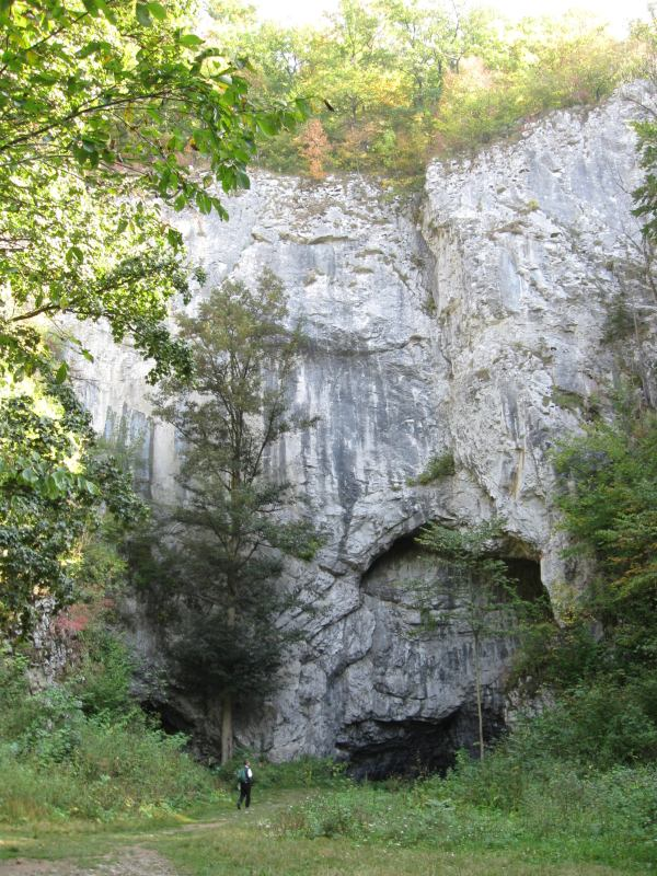 Karst topography in the Maravian Karst, Czech Republic